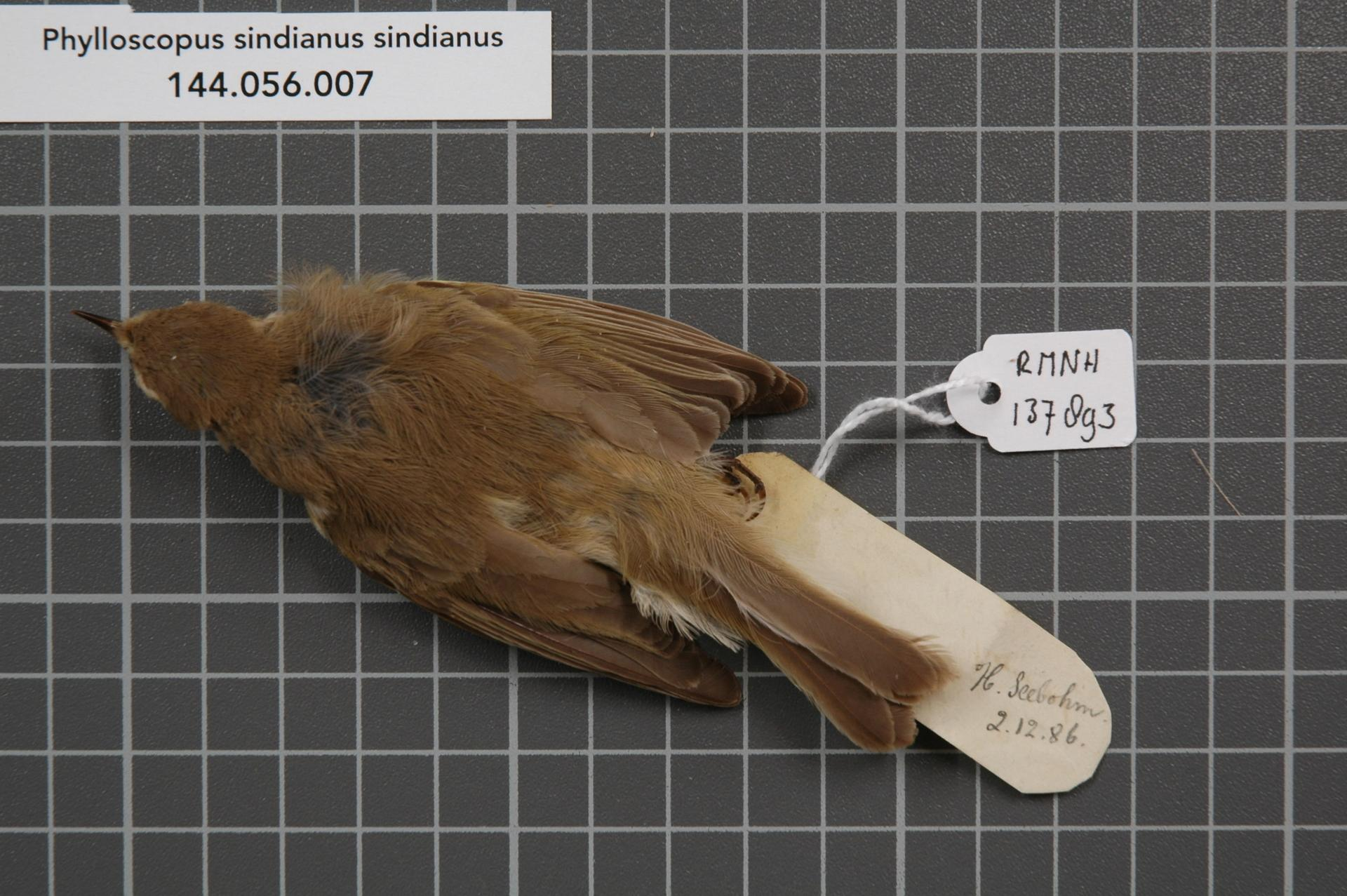 Phylloscopus sindianus sindianus Brooks, 1879